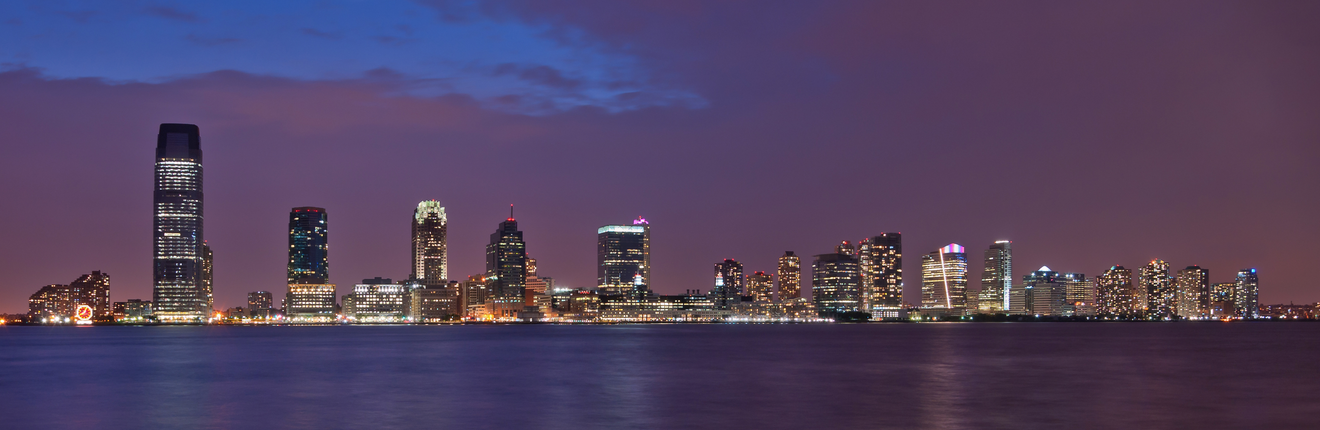 New Jersey Skyline as seen from Battery Park, New York.